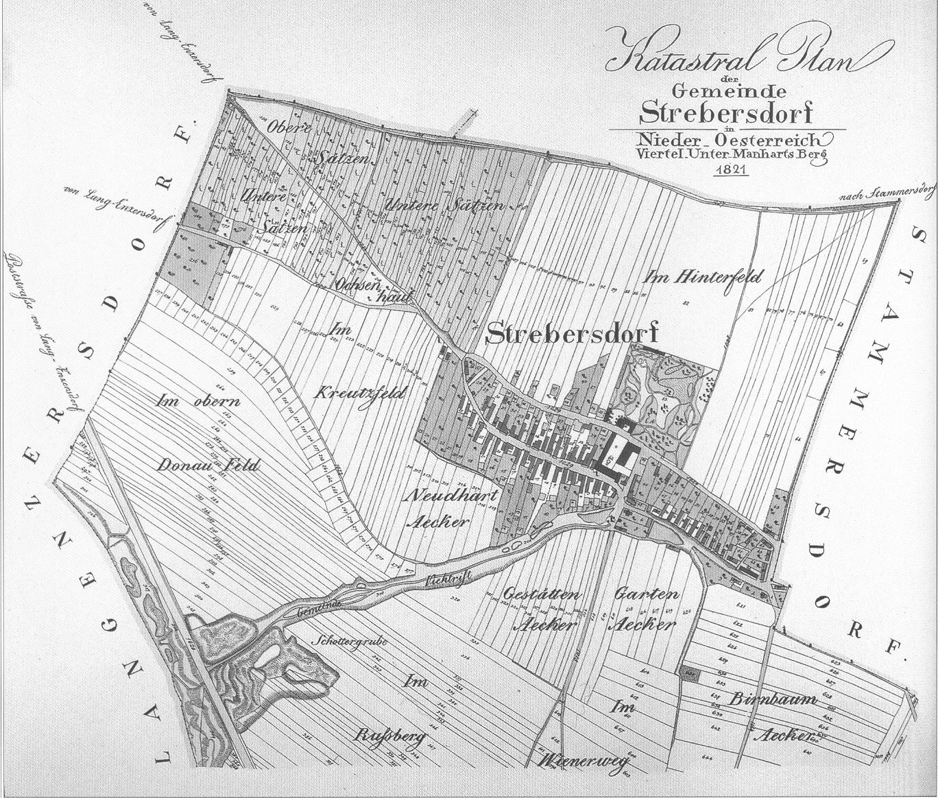 Map (Katastralplan) of Strebersdorf (Wien) with Hauptstraße and market place. Left a part of the "Spitzer Wirtshaus" and the townhall